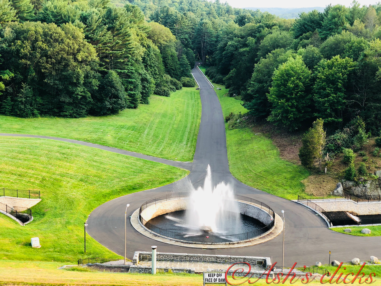 This is one of the historic dam in Connecticut named as saville dam